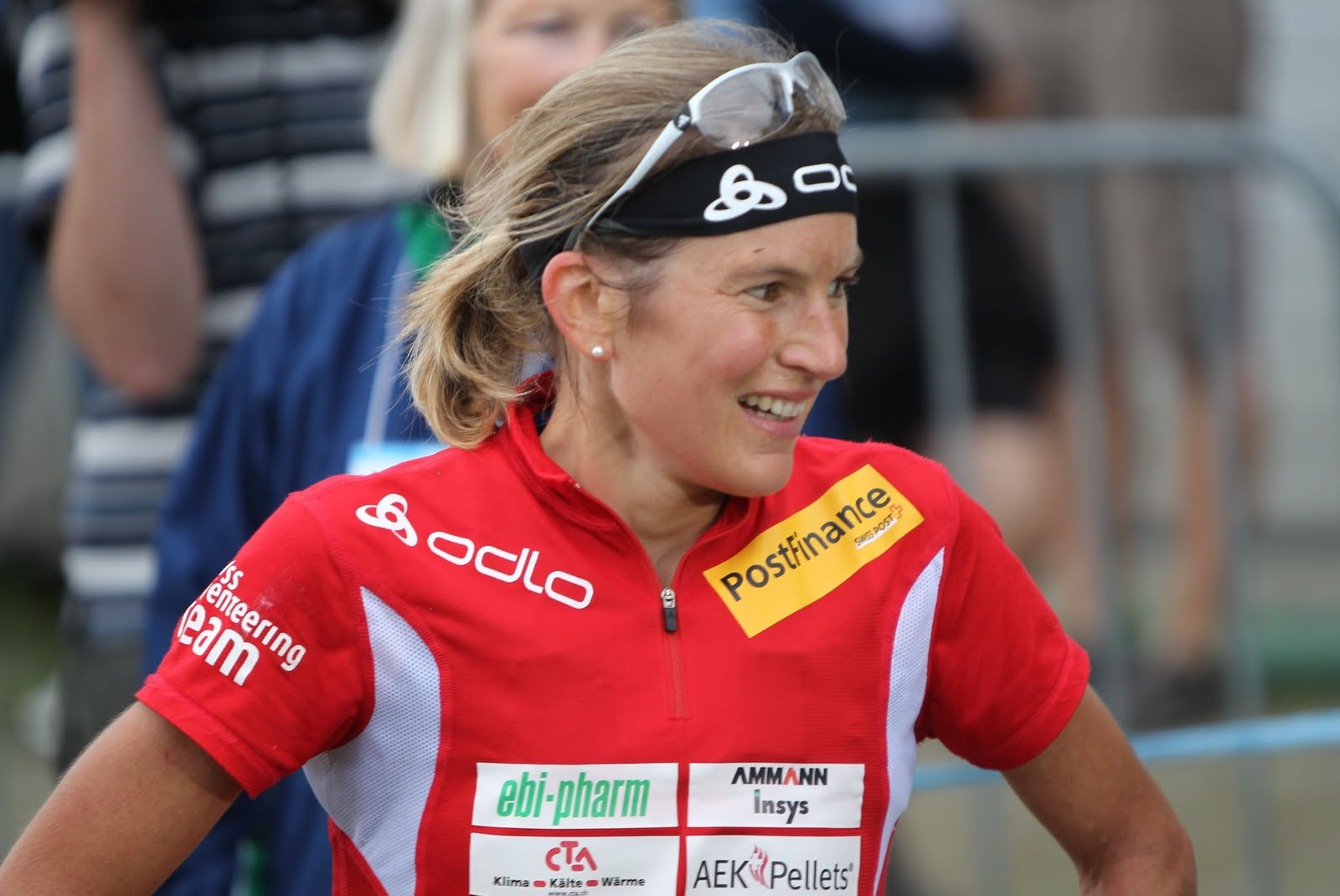 Simone Niggli-Luder at World Orienteering Championships 2010 in Trondheim, Norway